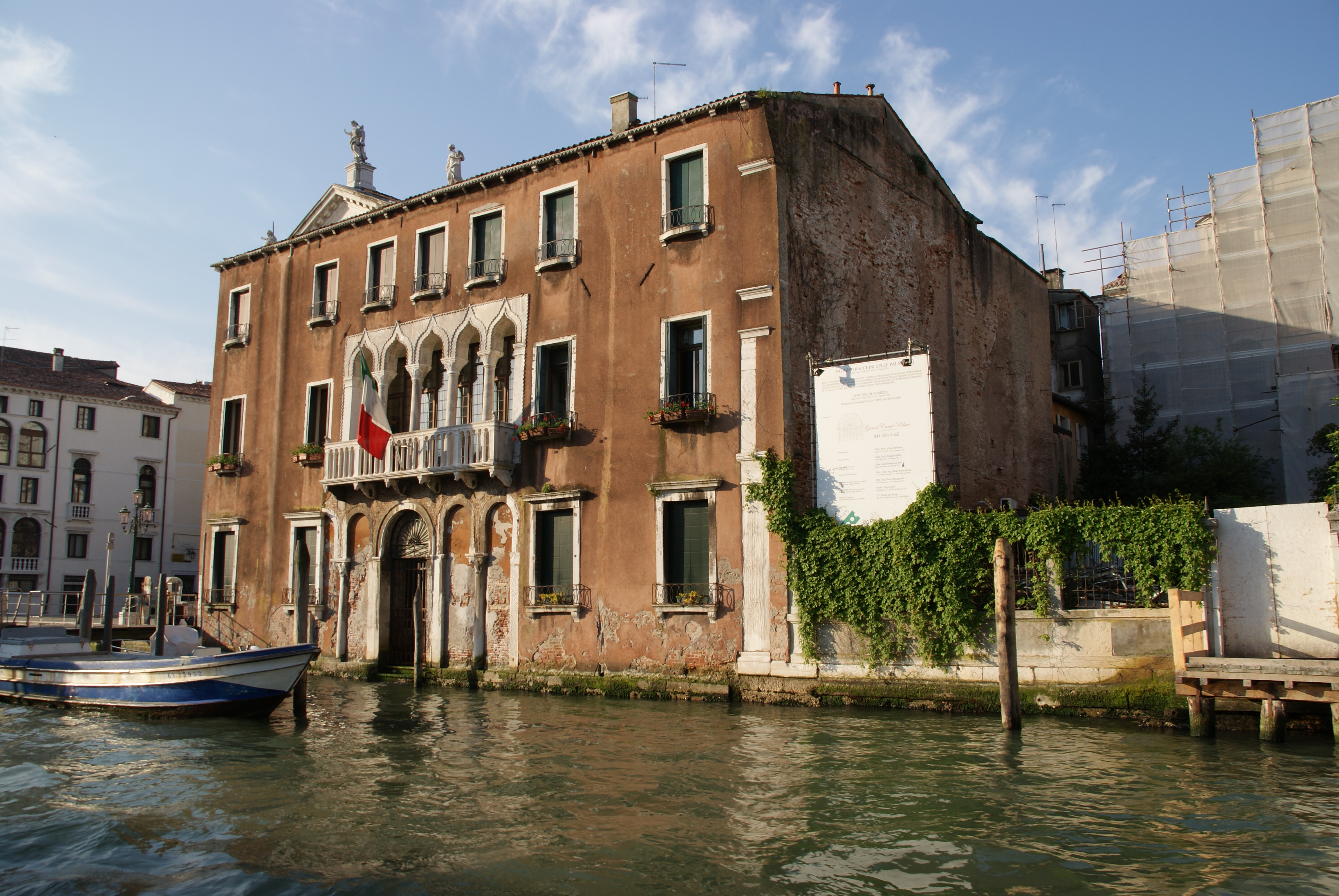 Palazzo Priuli Bon, Santa Croce, Venice